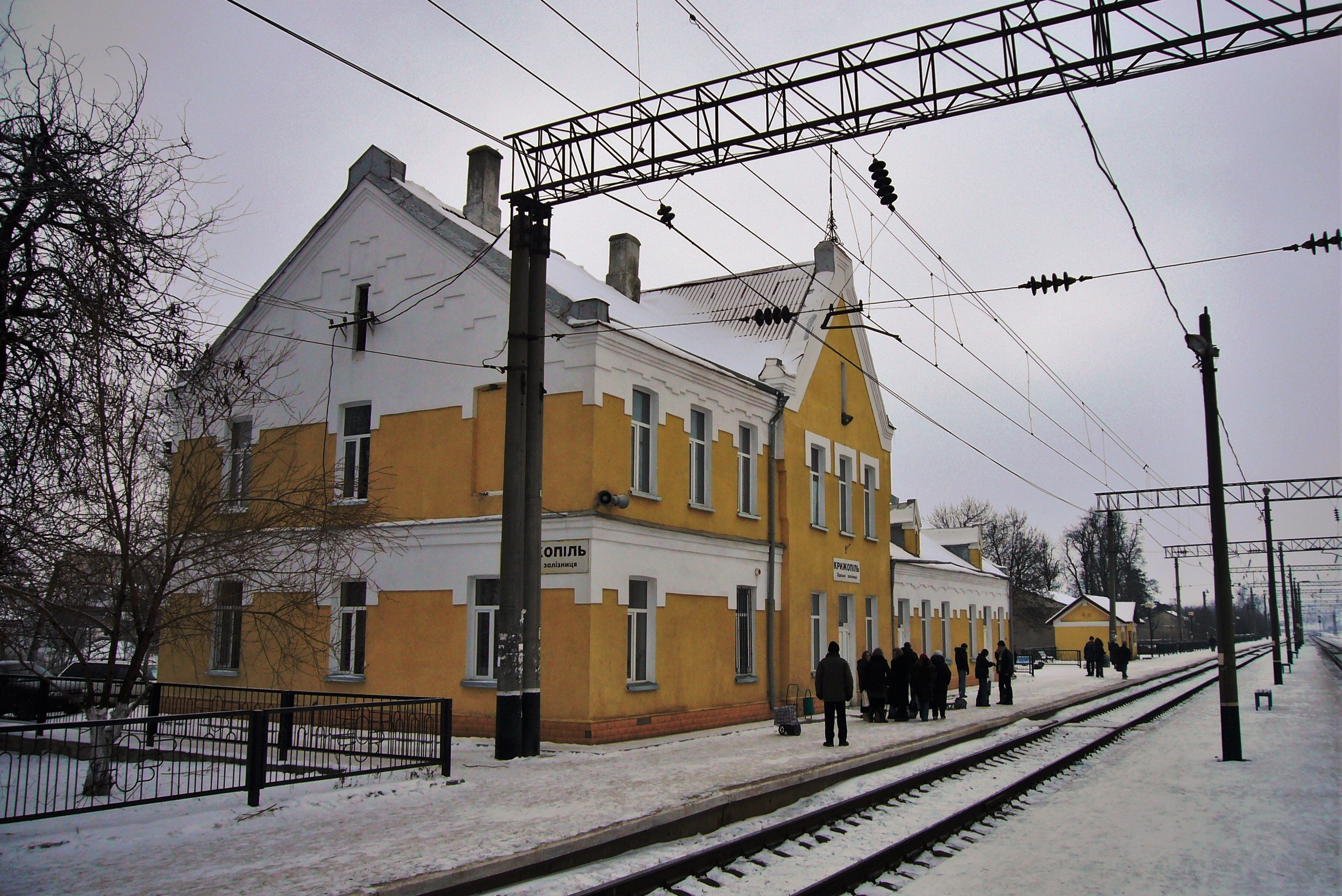 Kryzhopol (Kryzhopil) Railway Station in winter, Vinnitsa Oblast, Ukraine.